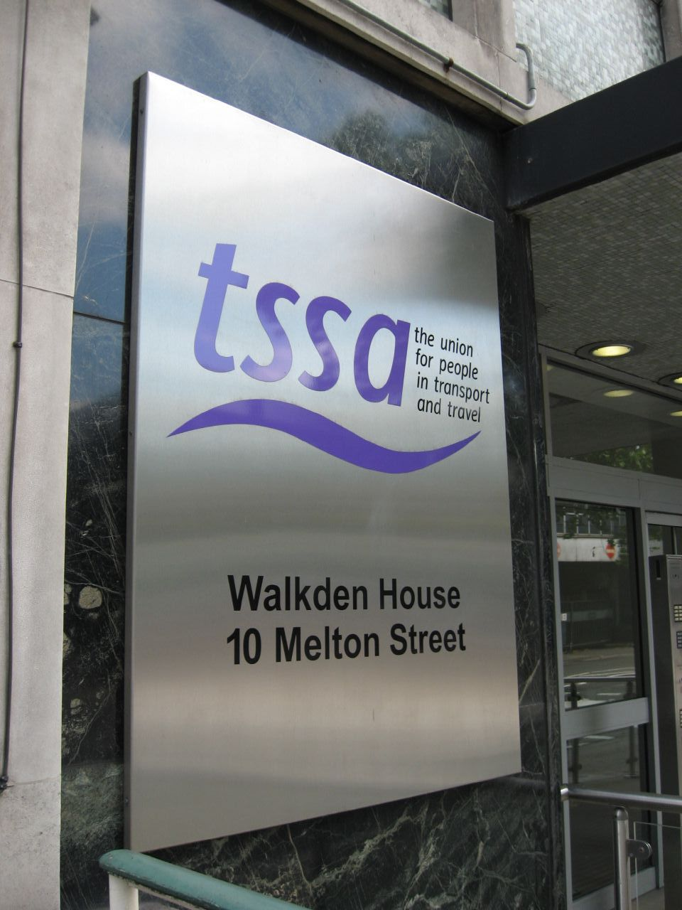 Sign at TSSA head office, London